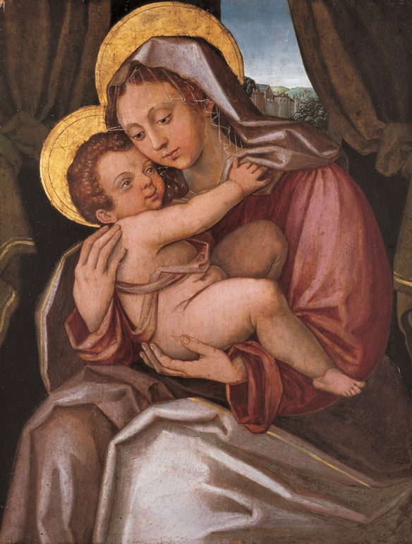 Madonna and Child (16th century). Italian painting. It hangs in the Museu Episcopal de Beja, Portugal.